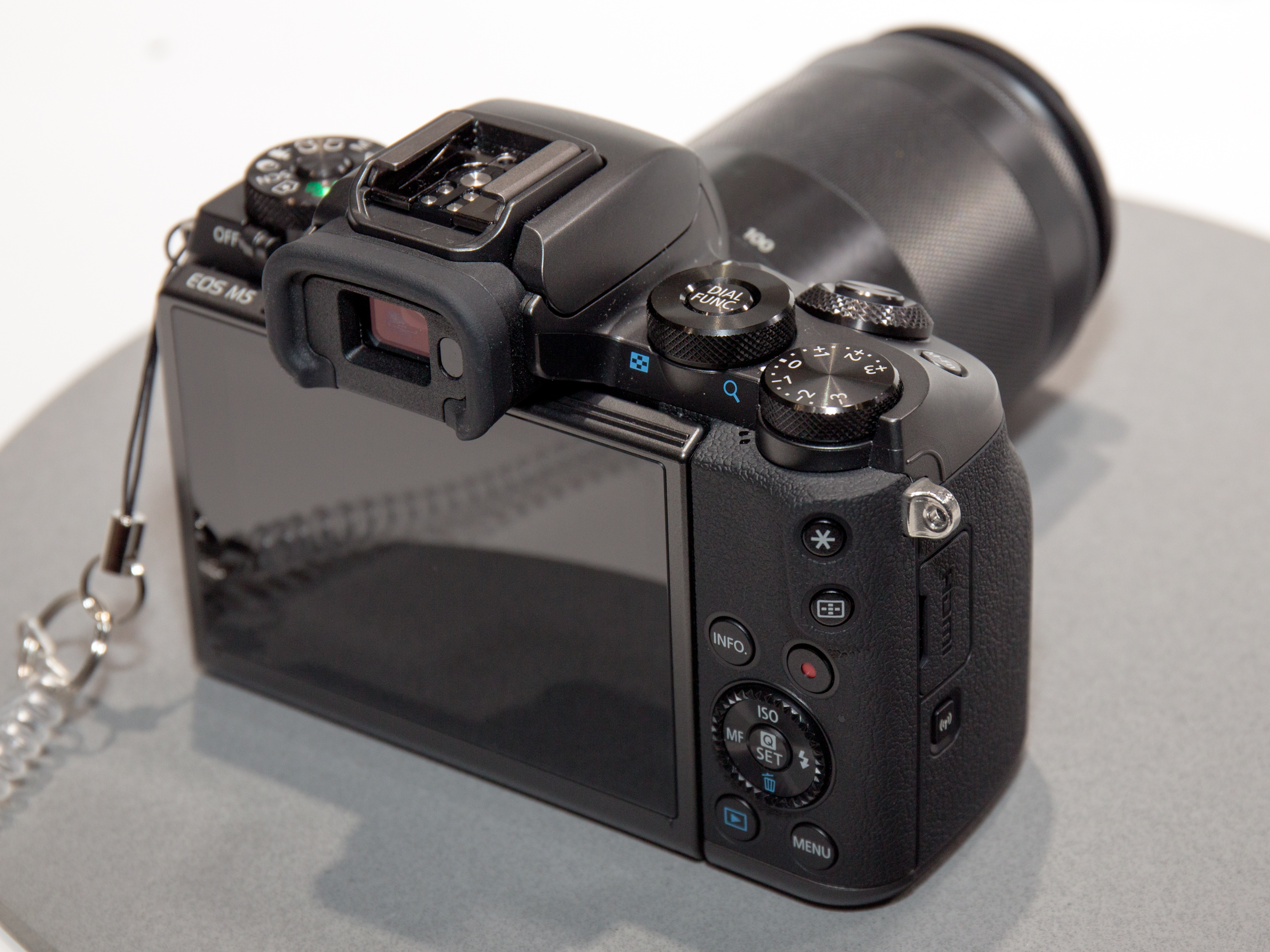 CP+ 2017: 2016 Canon EOS M5